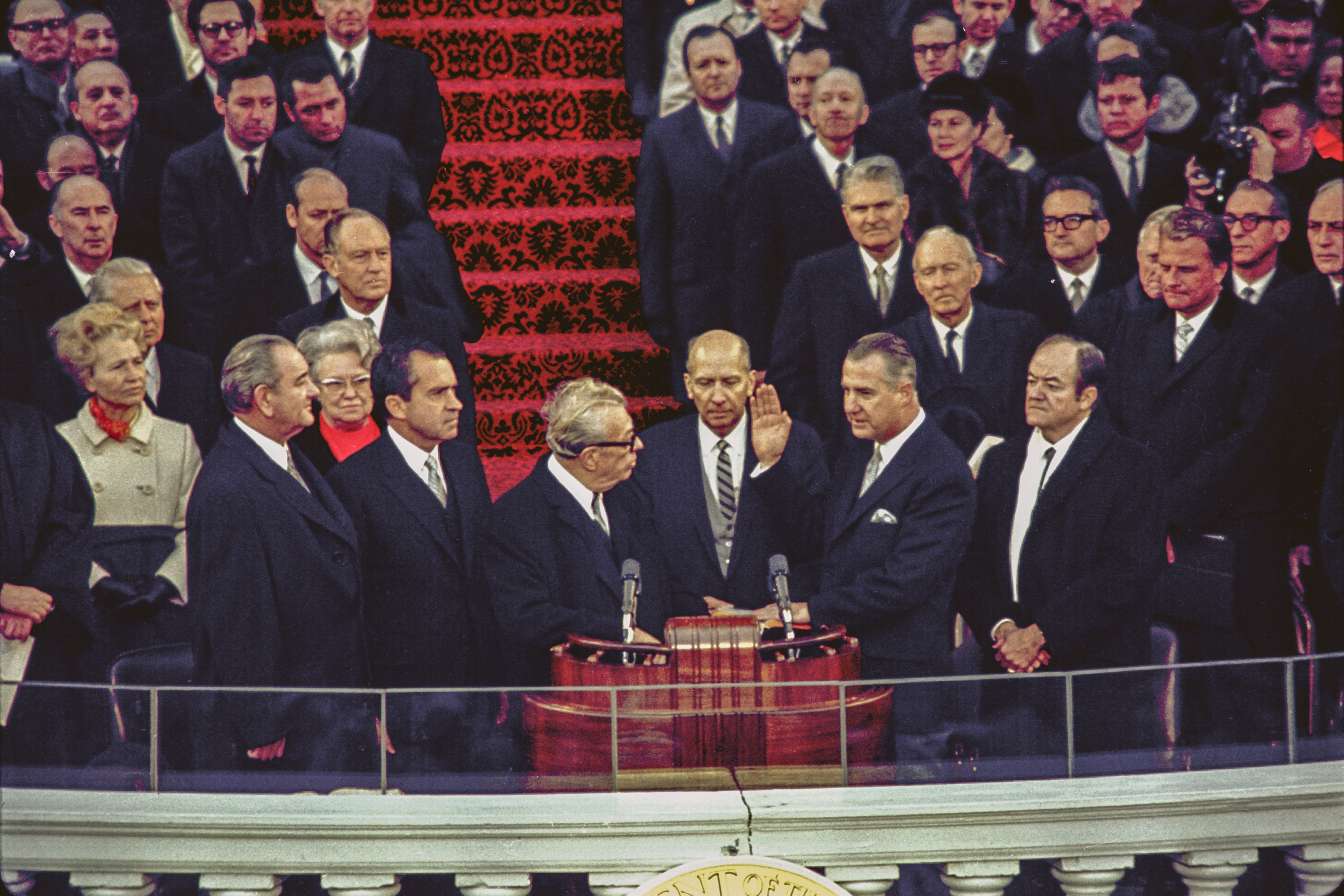 L-R: President Lyndon Johnson, President-Elect Richard Nixon, Senate Majority Leader Everett Dirksen, Spiro Agnew sworn in as Vice President, and the outgoing Vice President Hubert Humphrey at inauguration, 20 January1969. This media is available in the holdings of the National Archives and Records Administration, cataloged under the National Archives Identifier (NAID) 194280. This tag does not indicate the copyright status of the attached work. A normal copyright tag is still required. See Commons:Licensing. Creator: President (1969-1974: Nixon). White House Photo Office. (1969 - 1974) (Most Recent) Type of Archival Materials: Photographs and other Graphic Materials Level of Description: Item from Collection NS-WHPO: White House Photo Office Collection, 01/20/1969 - 08/09/1974 Location: Richard Nixon Library - College Park (NLRNS), National Archives at College Park, 8601 Adelphi Road, Room 1320, College Park, MD 20740-6001 PHONE: 301-837-3290, FAX: 301-837-3202, Production Date: 01/20/1969 Part of: Series: Master Print File, 1969 - 1974 Scope & Content Note: Pictured: Lyndon Baines Johnson, Richard M. Nixon, Everett Dirksen, ?, Spiro T. Agnew, Hubert H. Humphrey. Subject: Inauguration - 1969. Access Restrictions: Unrestricted Use Restrictions: Unrestricted